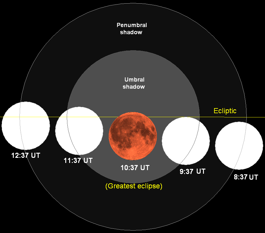 Lunar eclipse of August 2007 chart